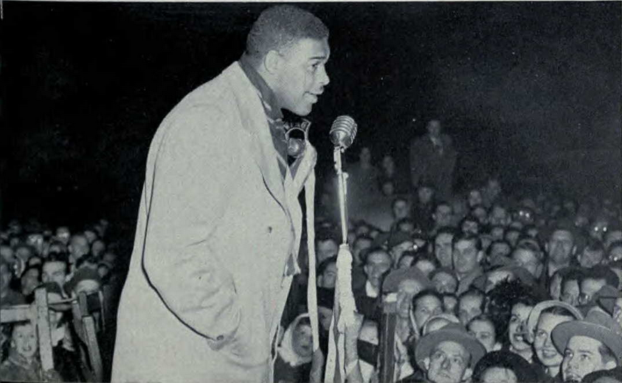 Photograph of Len Ford talking to fans in Michigan after returning from 1948 Rose Bowl